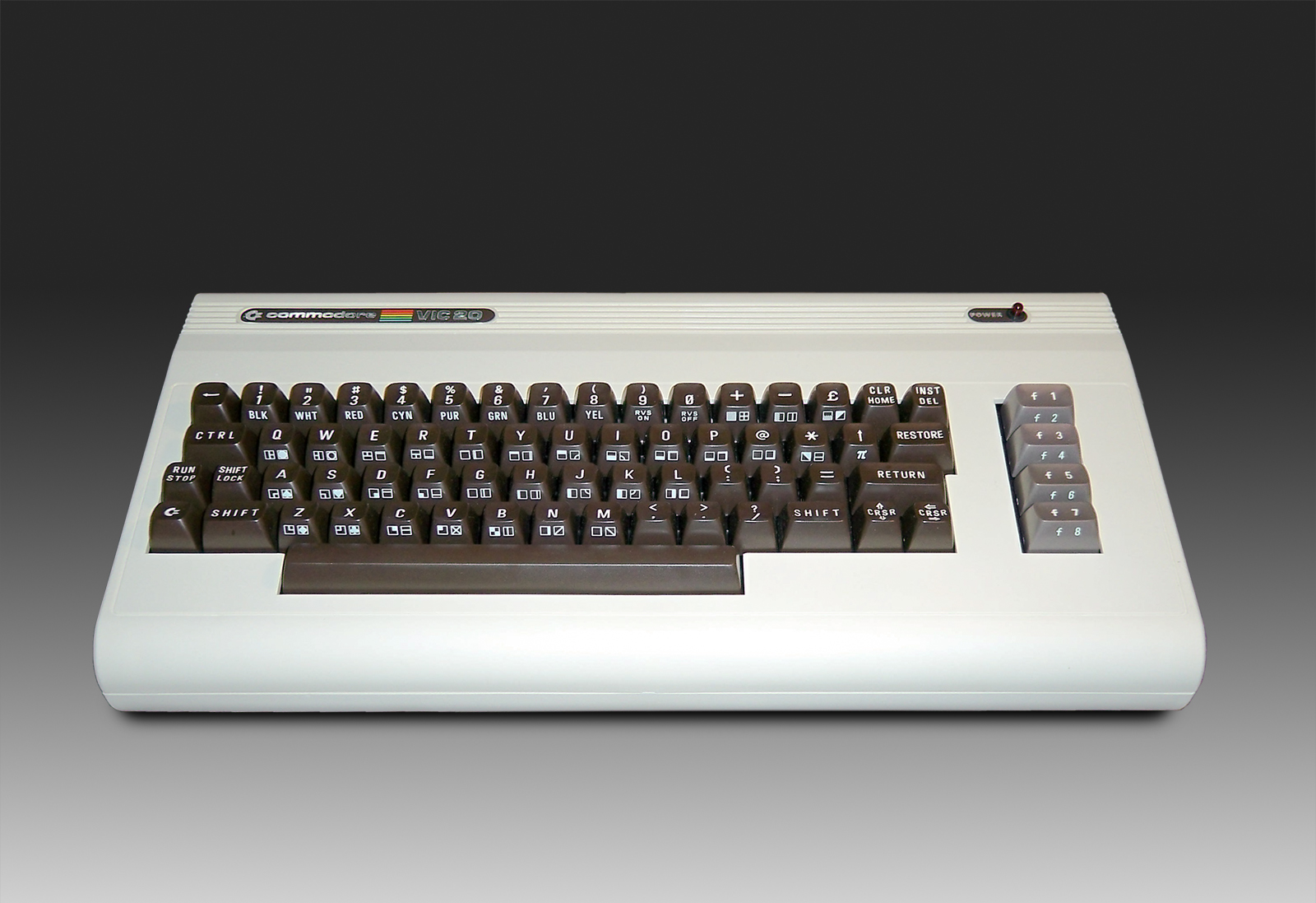 Commodore VIC-20 Computer with later revision case badges.